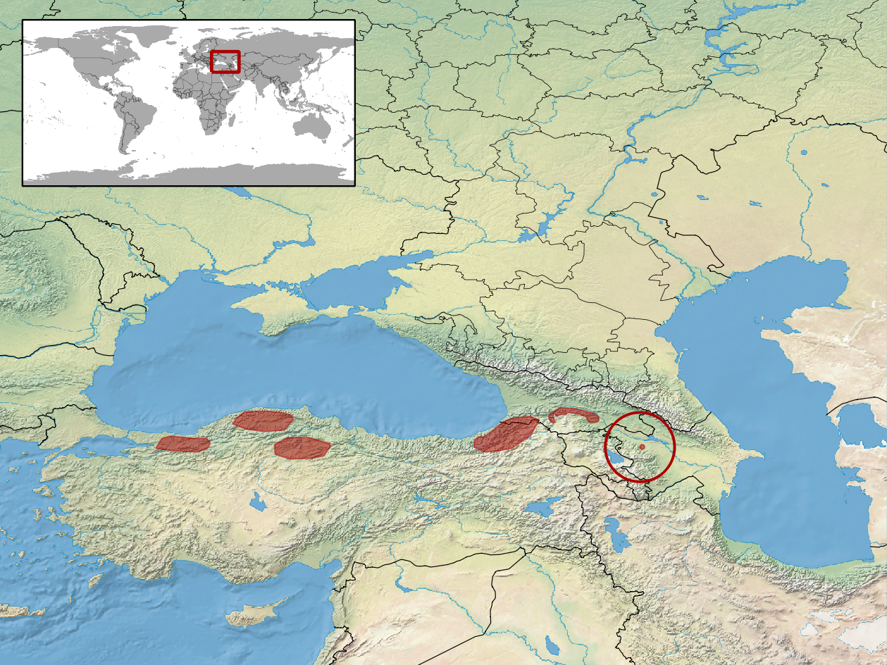 geographic distribution of Vipera transcaucasiana (Native: Azerbaijan; Georgia; Iran, Islamic Republic of; Turkey)